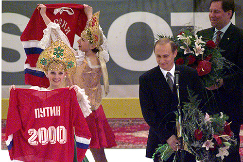 Vladimir Putin at the opening ceremony of the 2000 Ice Hockey World Championship